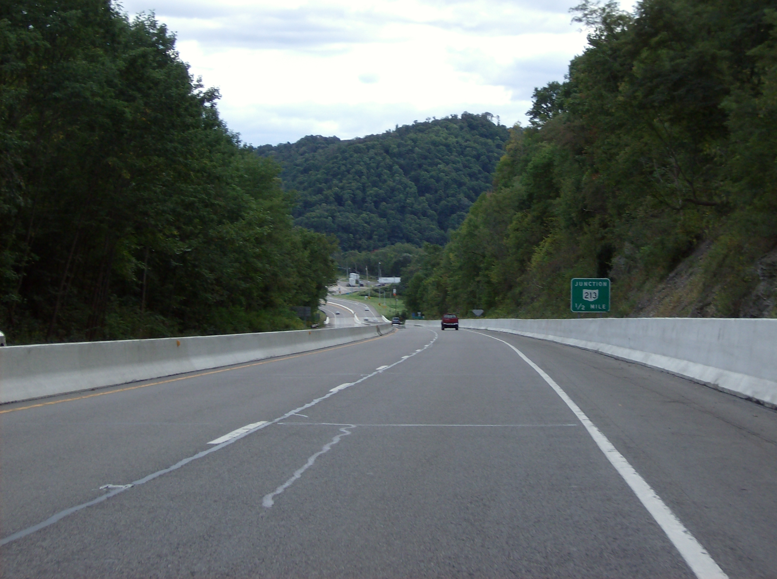 Southbound along State Route 7 in northern Saline Township, Jefferson County, Ohio, United States, just south of the Columbiana County line.